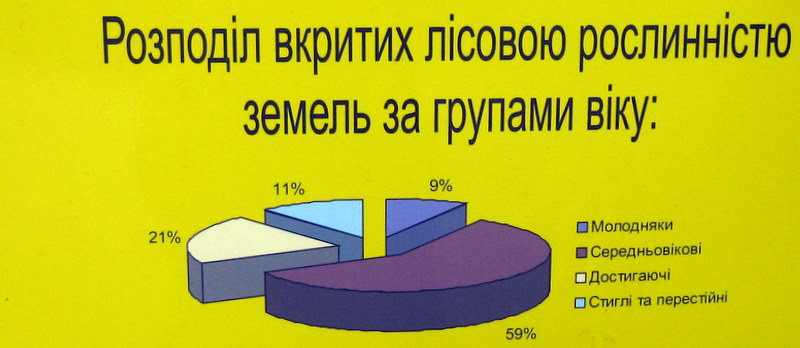 Cold Ravine